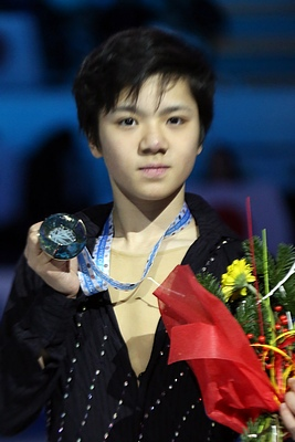 Shoma Uno(1st) at the 2014-2015 Junior Grand Prix Final.